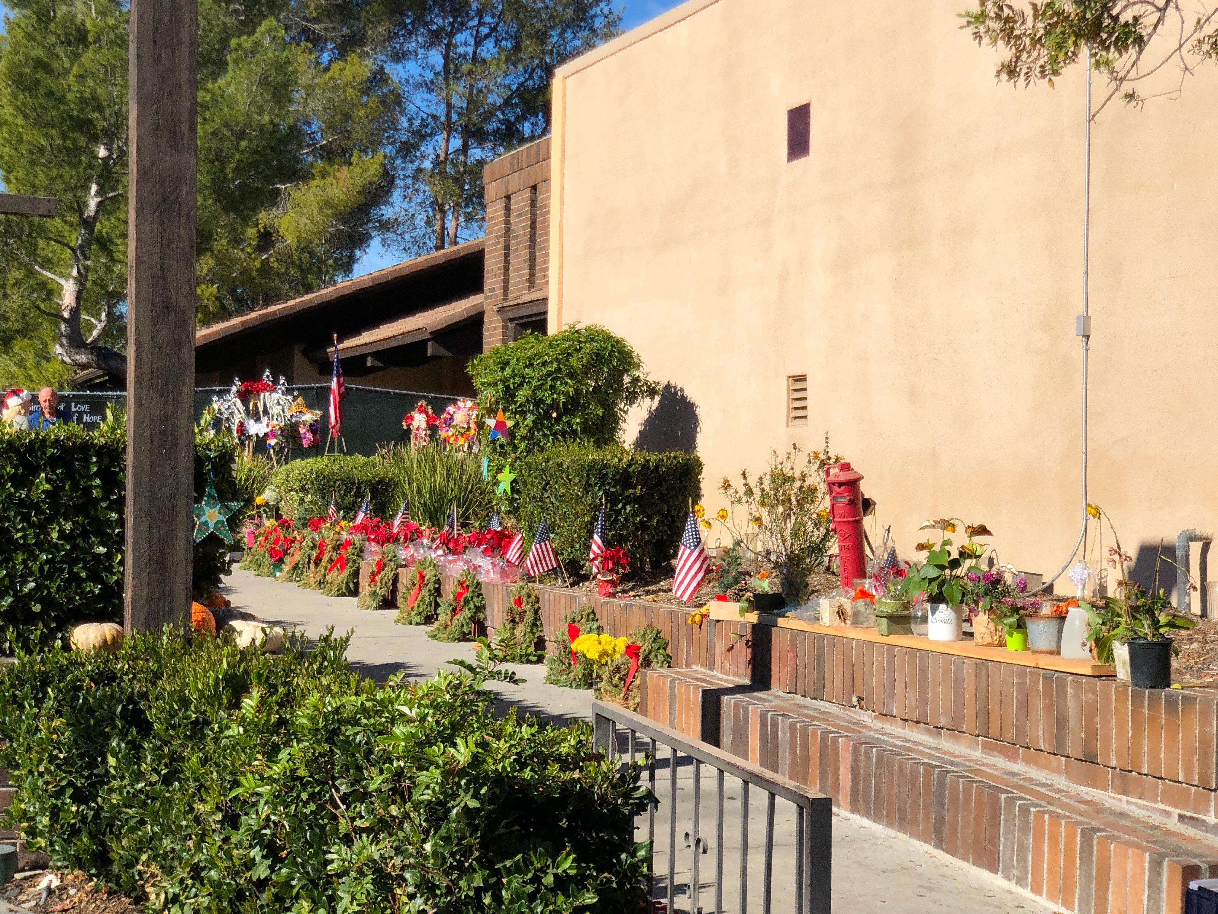 Flowers outside Borderline Bar & Grill following the 2018 mass shooting.